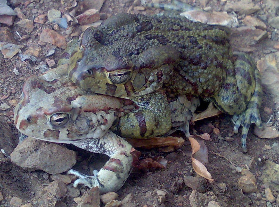 Amietophrynus gutturalis pair in amplexus - Magalies River Valley, Magaliesberg